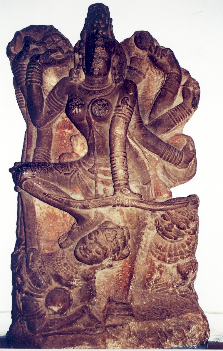 Durga Killing Mahisha, India